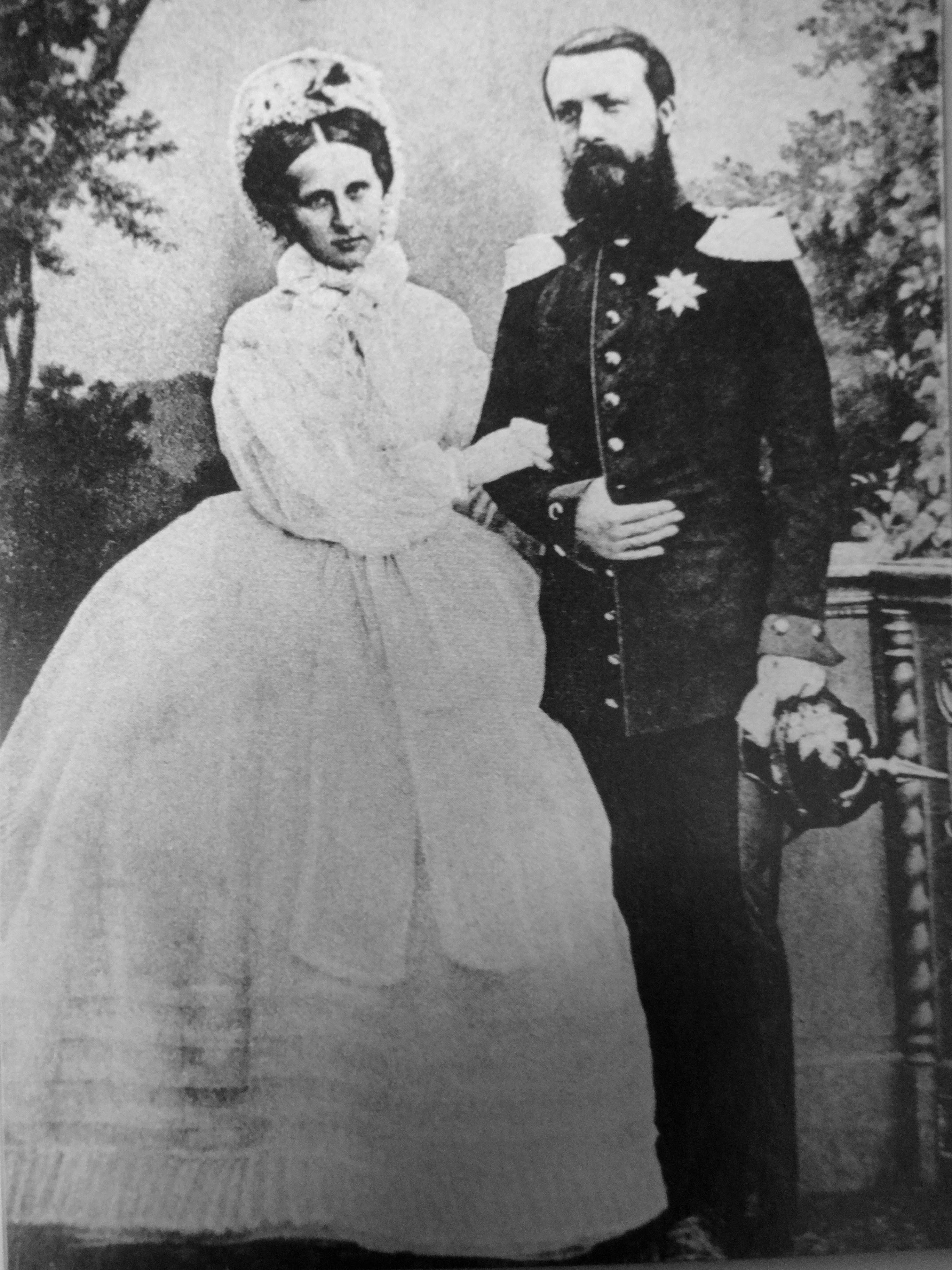 Grand Duke Friedrich I of Baden and Princess Luise of Prussia